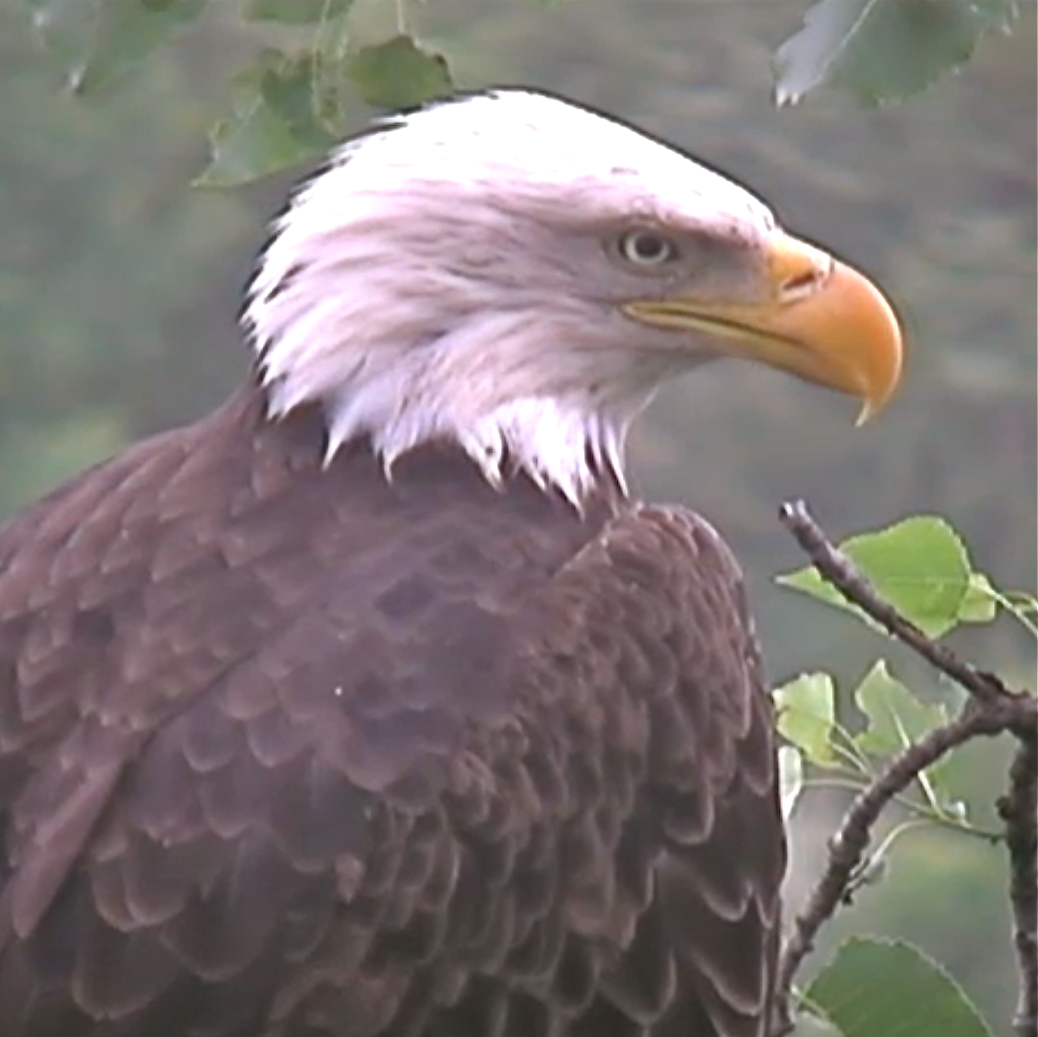 Screenshot from Ustream.tv taken August 2011, close-up of Decorah eagle female